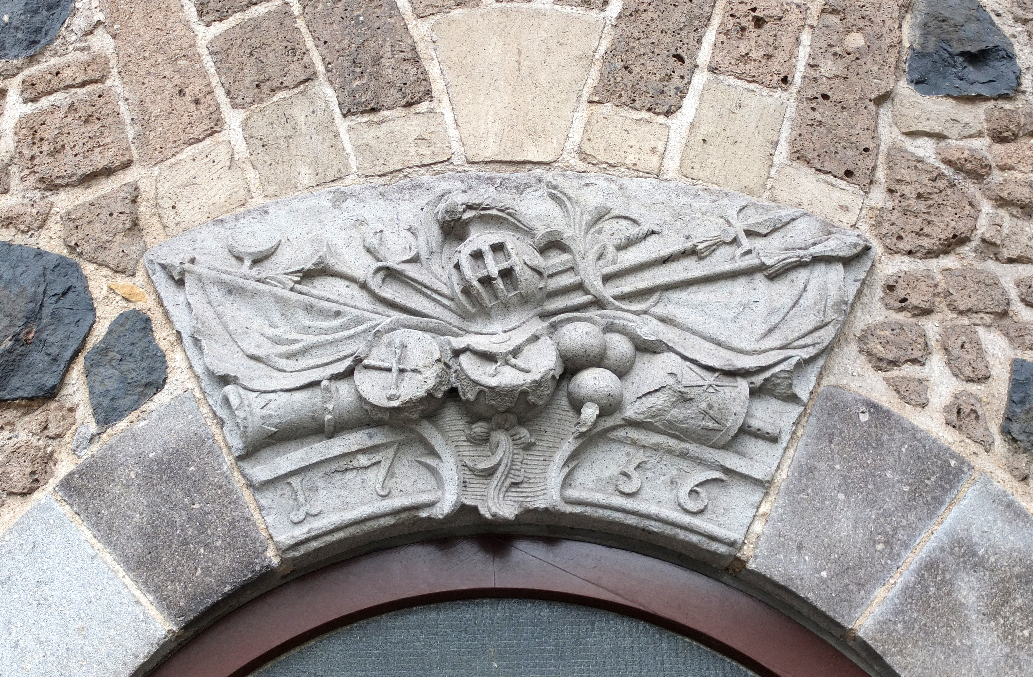 Keystone, dated 1756, above the main entrance of Ulrepforte, Cologne